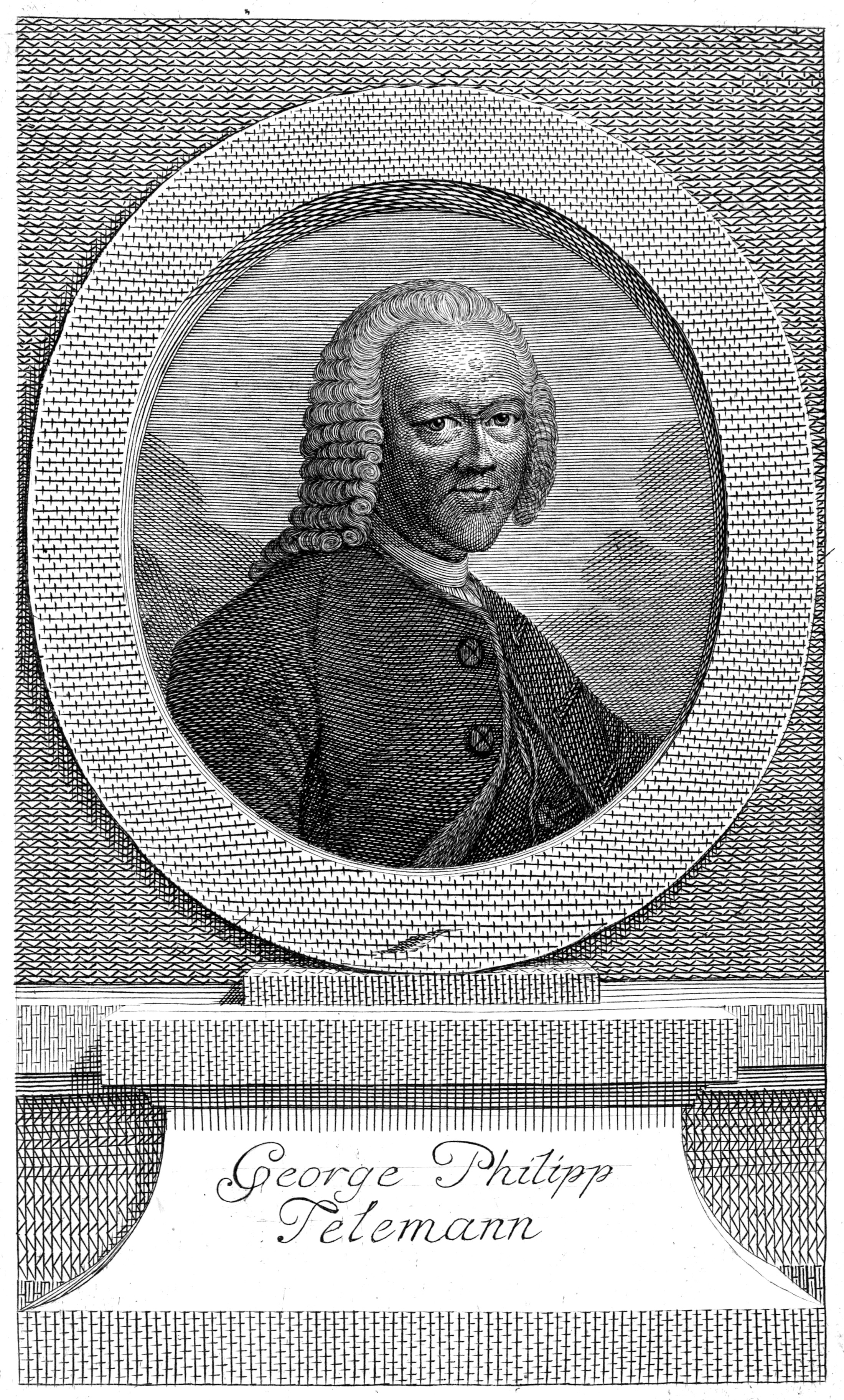 Depicted person: Georg Philipp Telemann